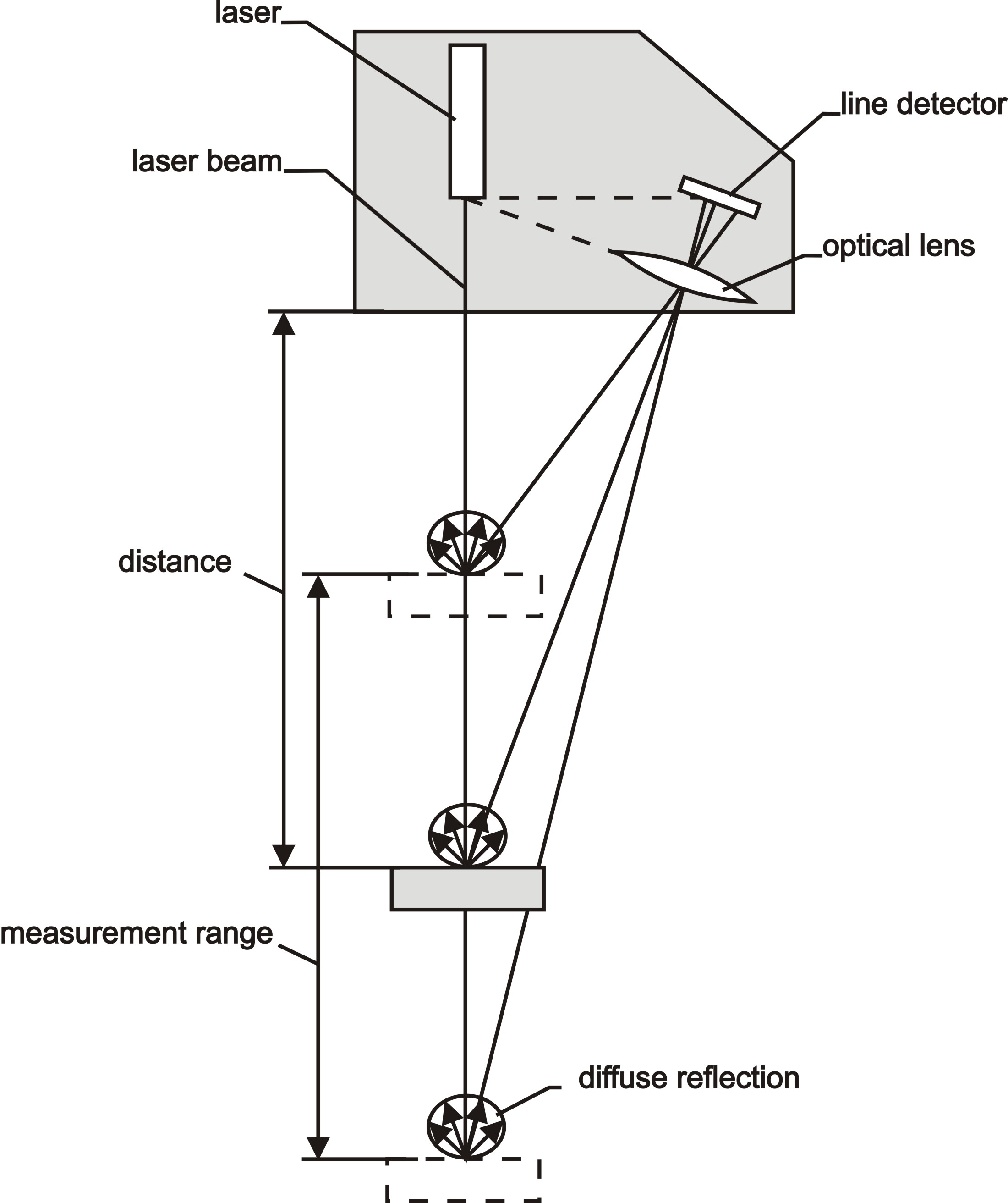 Triangulation